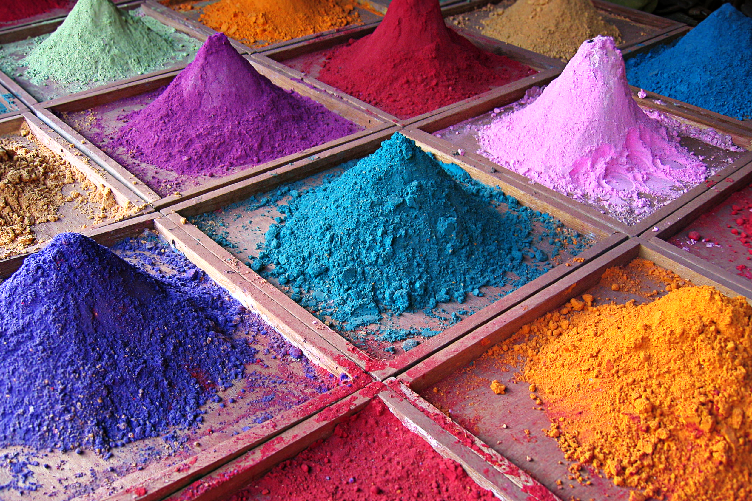 Pigments for sale on market stall, Goa, India.